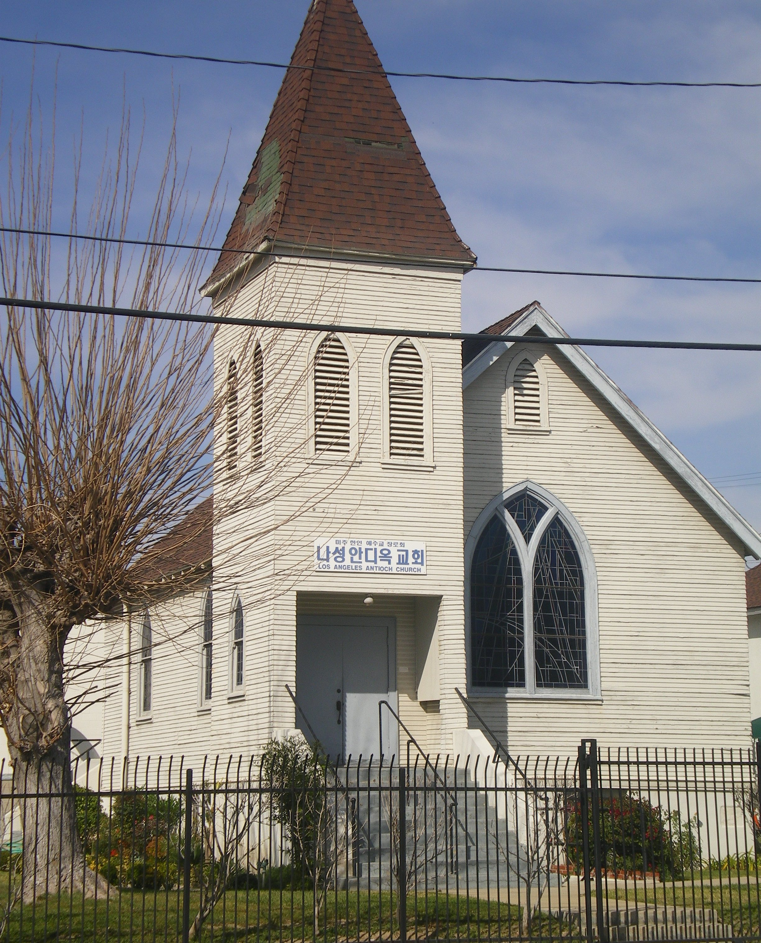 Faith Bible Church Gresham Street (west of Reseda Blvd.), Northridge, San Fernando Valley, California.